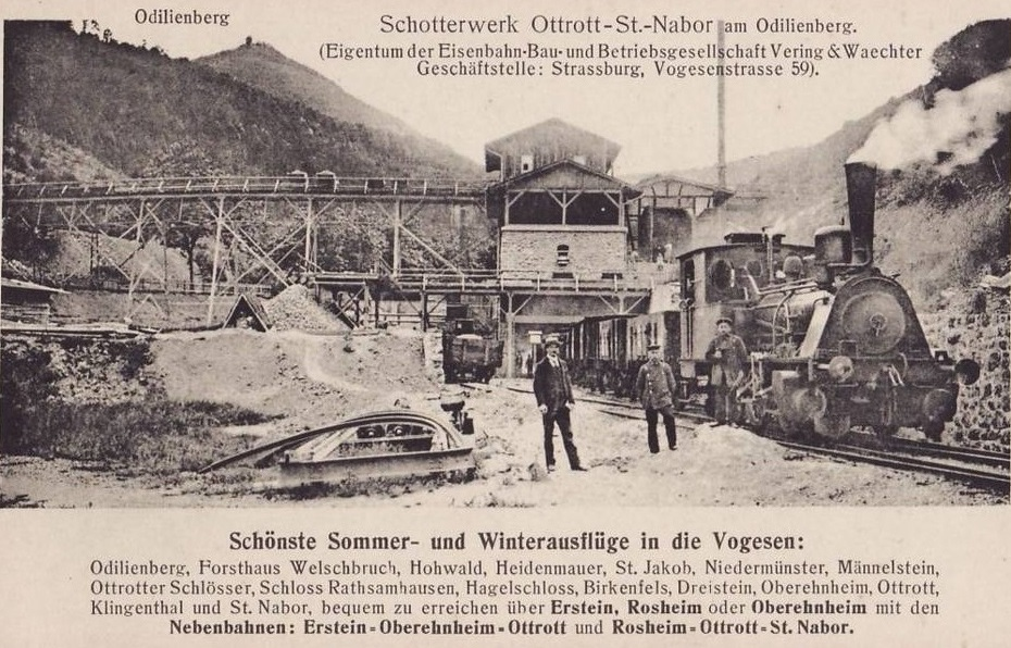 Quarry and crushing plant Ottrott–St. Nabor at Mount St. Odile (property of railway constructing and operating company Vering & Waechter) with T3 steam engine (Borsig) for the branch line Rosheim – Ottrott – Saint Nabor at the beginning of the 20th century